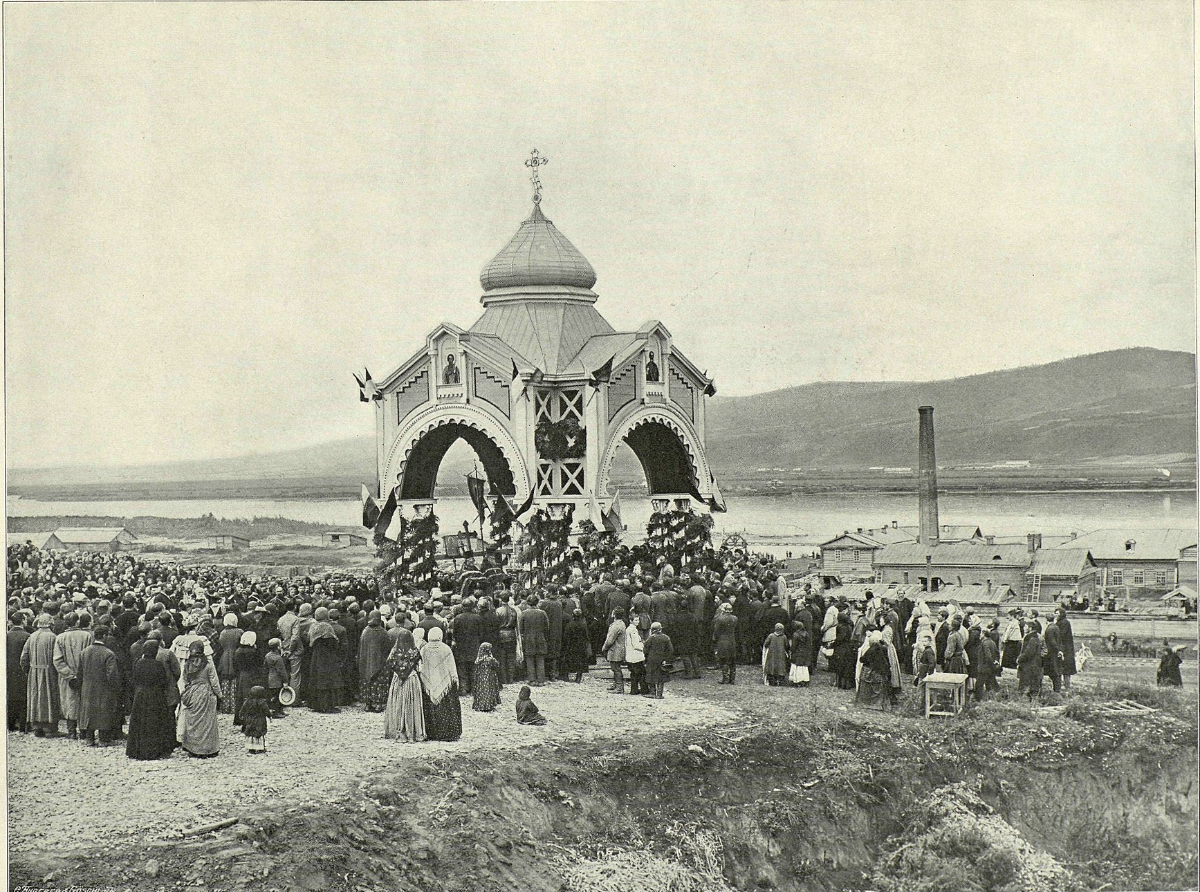 «Great Path - Views of Siberia and Great Siberian Railway» book, 1899